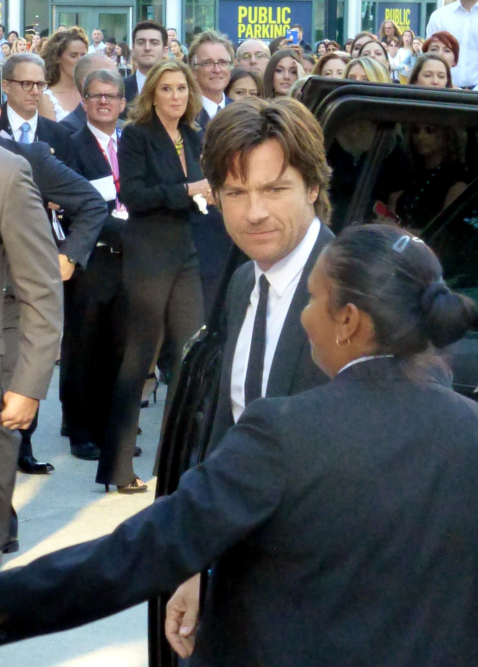 Jason Bateman at the premiere of This Is Where I Leave You, 2014 Toronto Film Festival